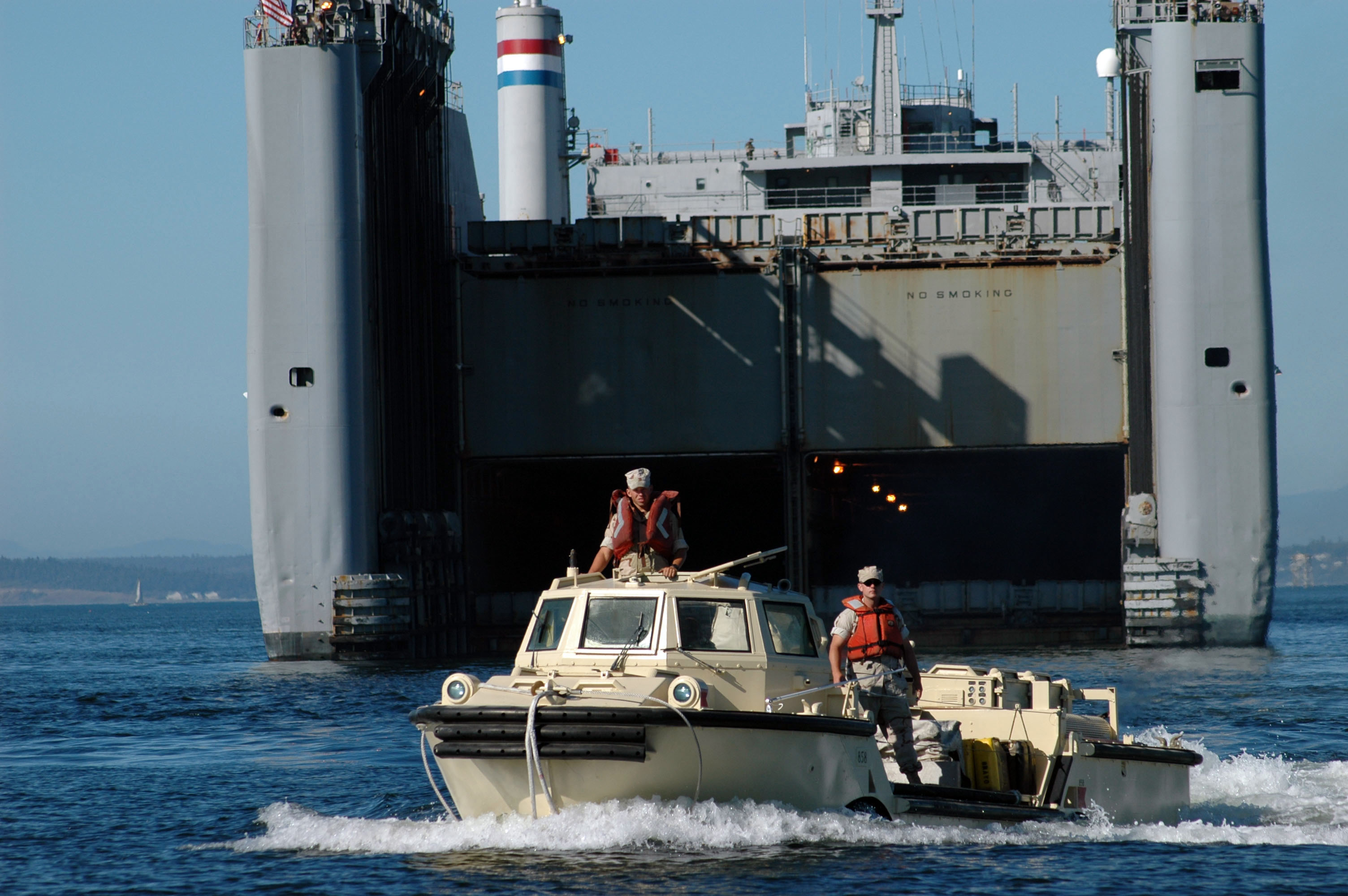 Indian Island, Wash. (July 28, 2005) - A Logistical Amphibious Recovery Craft (LARC) amphibious vehicle assigned to Beachmaster Unit One (BMU-1) launches from the Military Sealift Command (MSC) sea barge heavy lift ship SS Cape Mohican (T-AKR 5065) for the Joint Logistics Over the Shore (JLOTS) exercise. JLOTS is a joint training exercise focused on providing humanitarian relief or tactical support in an area without port facilities. U.S. Navy photo by Seaman Andrew Breese (RELEASED)